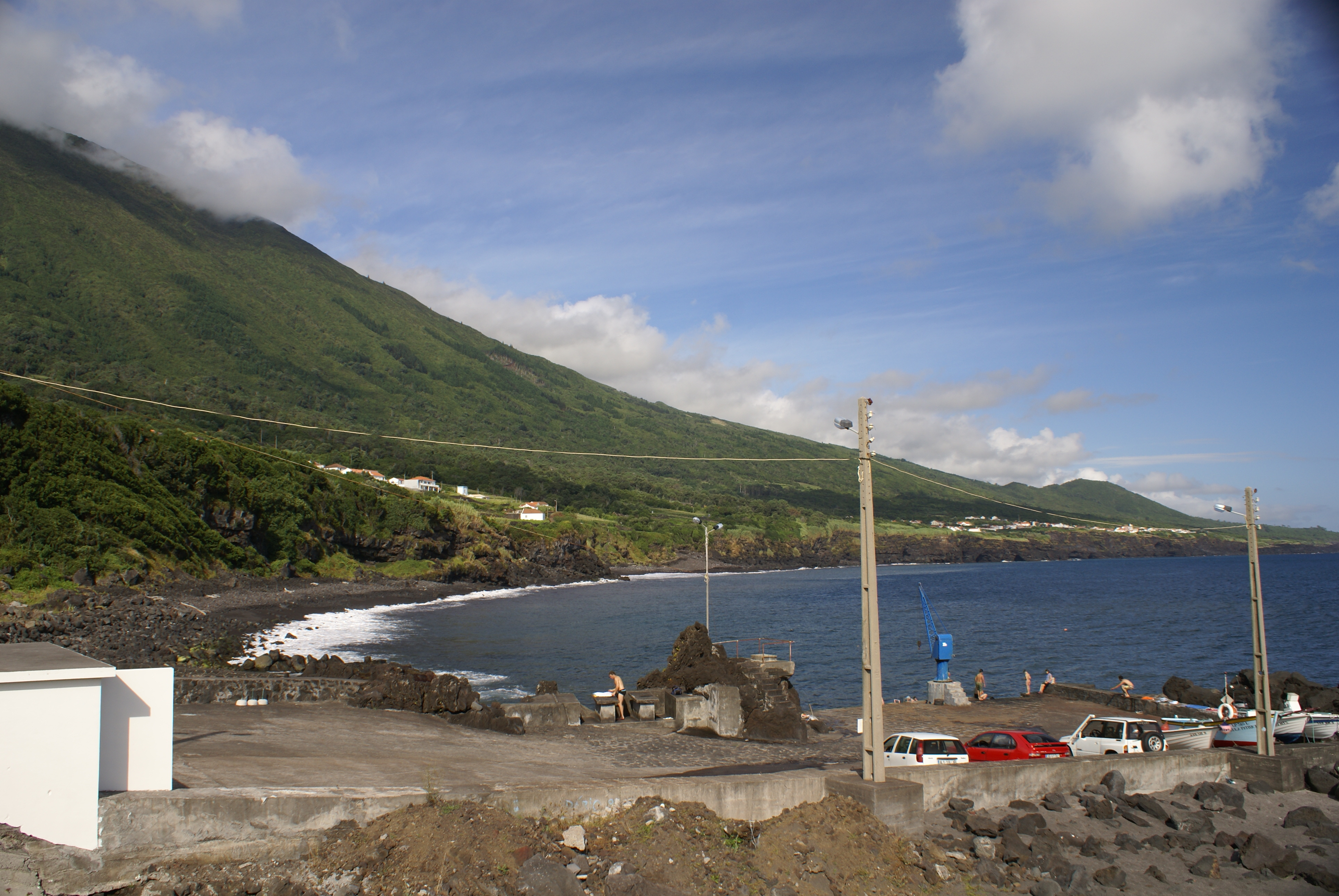 The port and beach of Praia do Galeão, civil parish of São Caetano, municipality of Madalena (Azores), Portugal